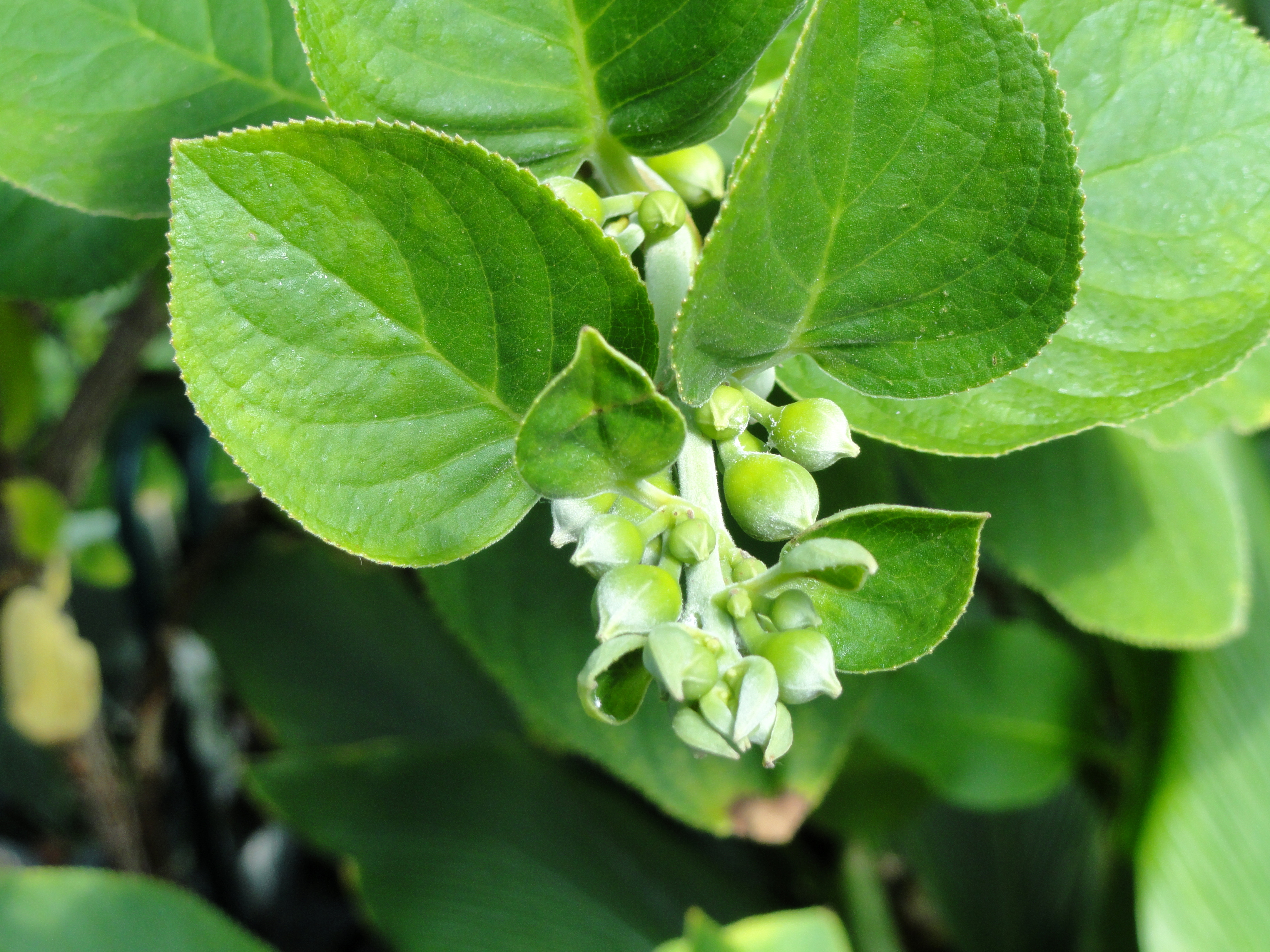 Paliavana prasinata. Botanical specimen in the Denver Botanic Gardens, 1007 York Street, Denver, Colorado, USA.